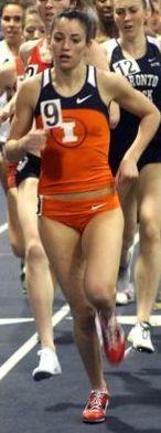 Angela Bizzarri competing in the Notre Dame Invite